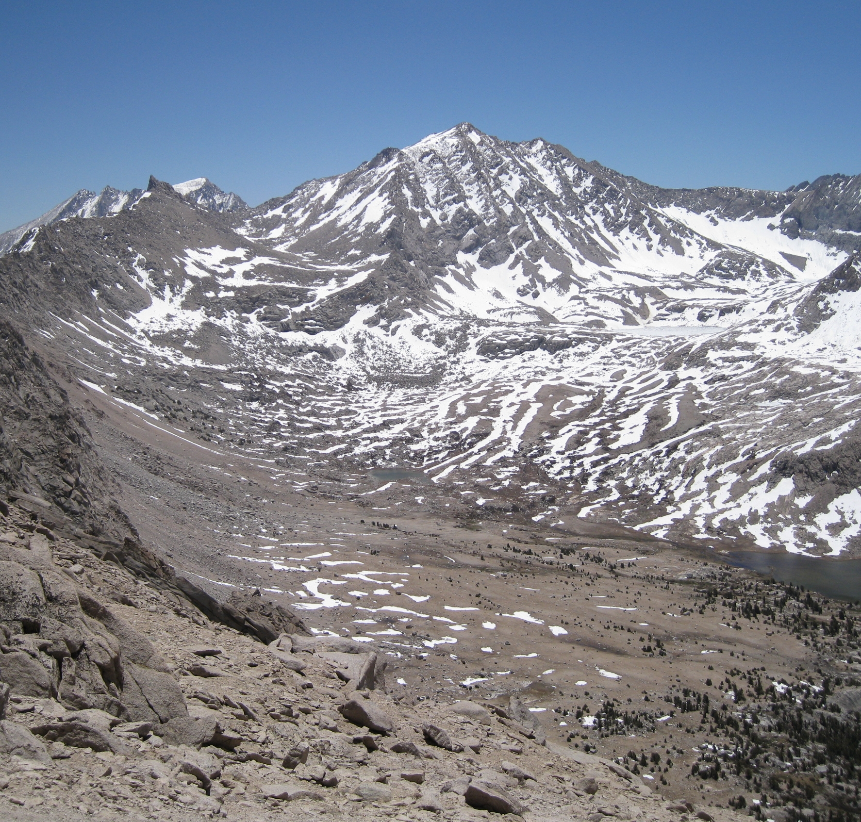 Mount Tyndall from the north